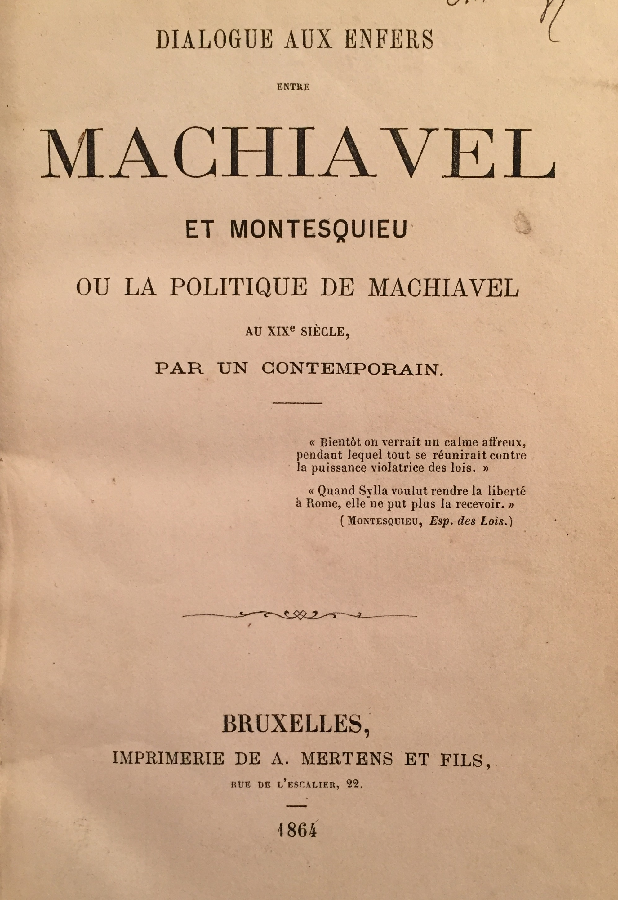 Title page of 1864 (1st) edition of Maurice Joly's book 'Dialogue aux enfers entre Machiavel et Montesquieu' from Varshavsky Collection library.